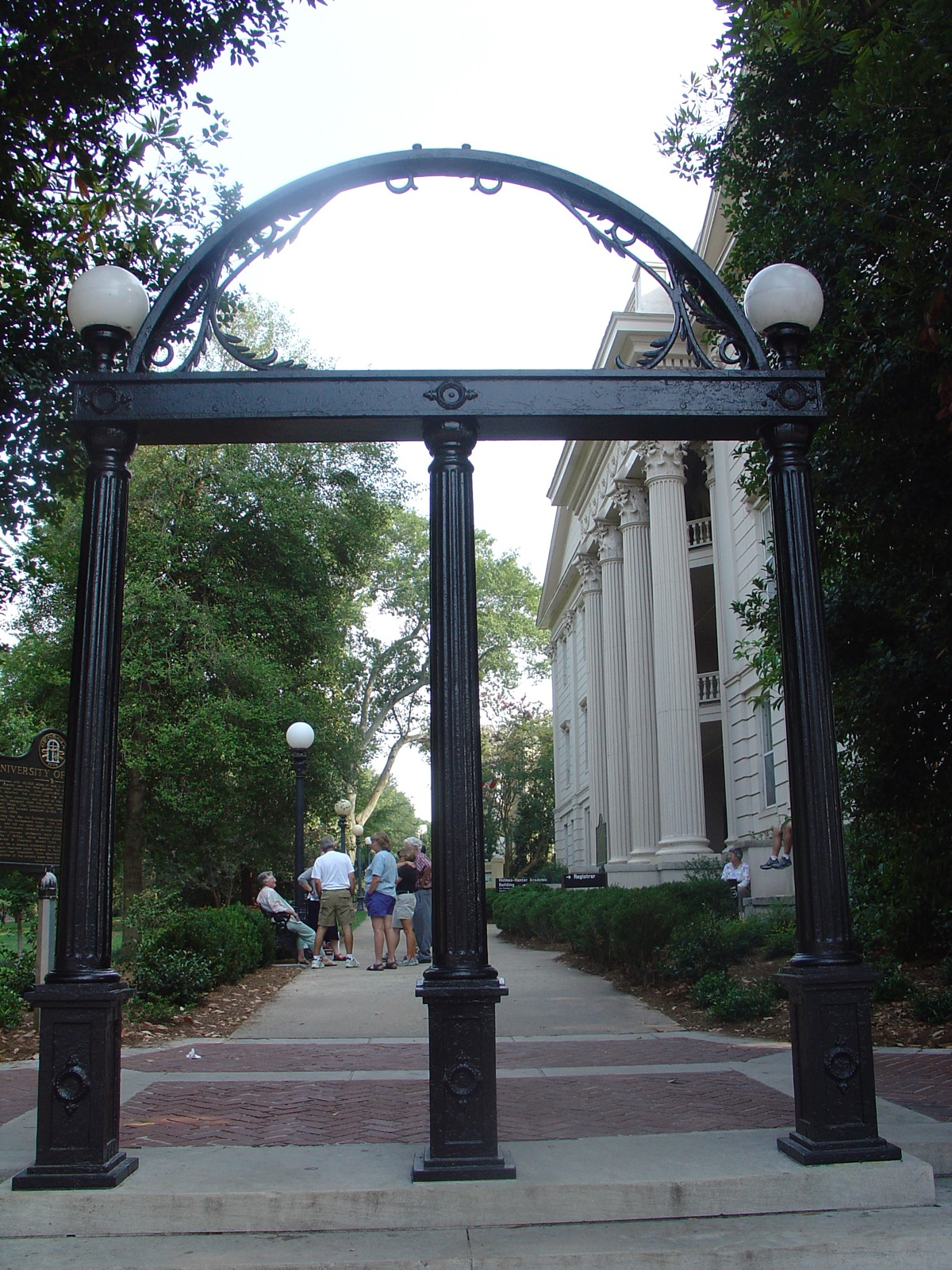 towards campus